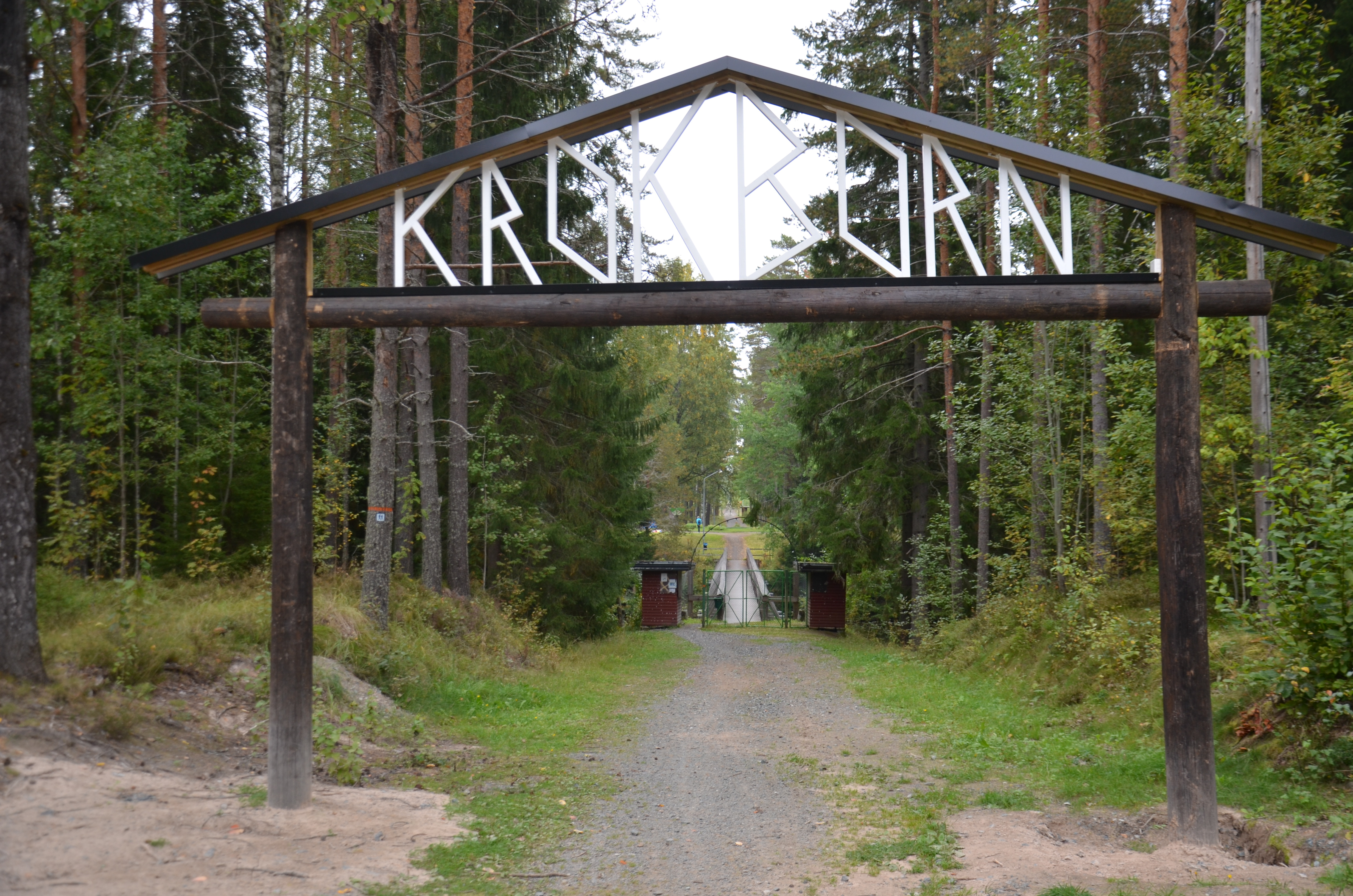 Västra entrén till Krokbornsparken i Hällefors